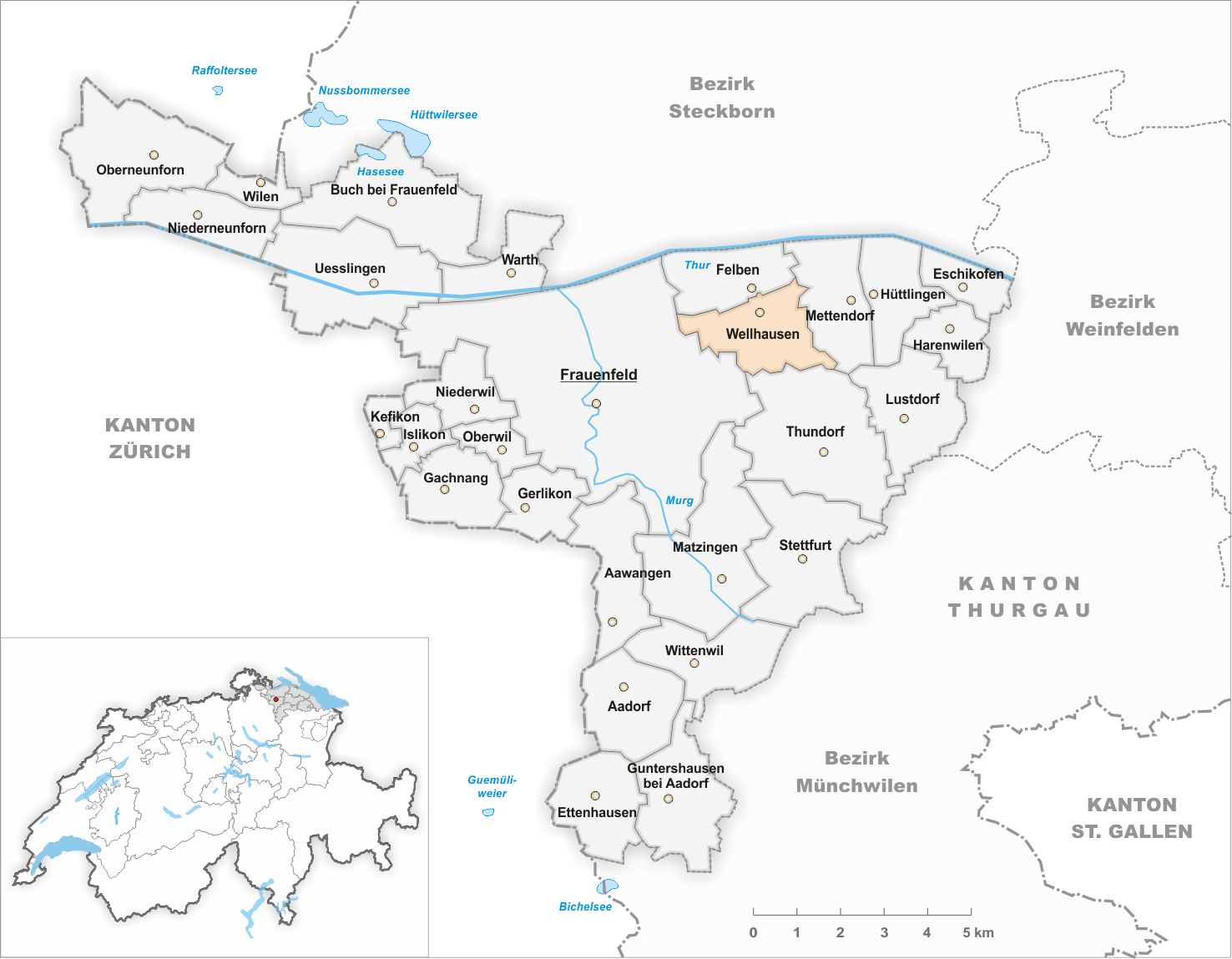 Municipality Wellhausen